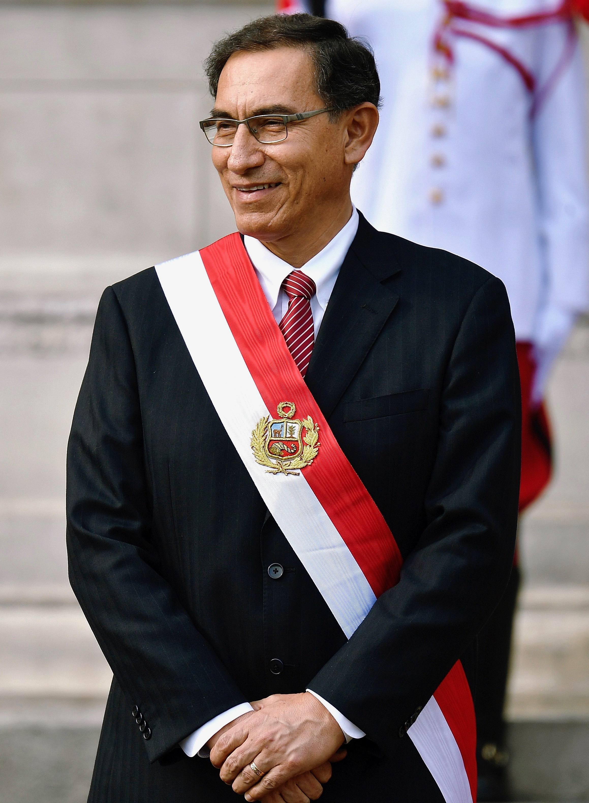 In a ceremony held at the Government Palace, President Martín Vizcarra took the oath as Chancellor of the Republic through Ambassador Néstor Popolizio Bardales.